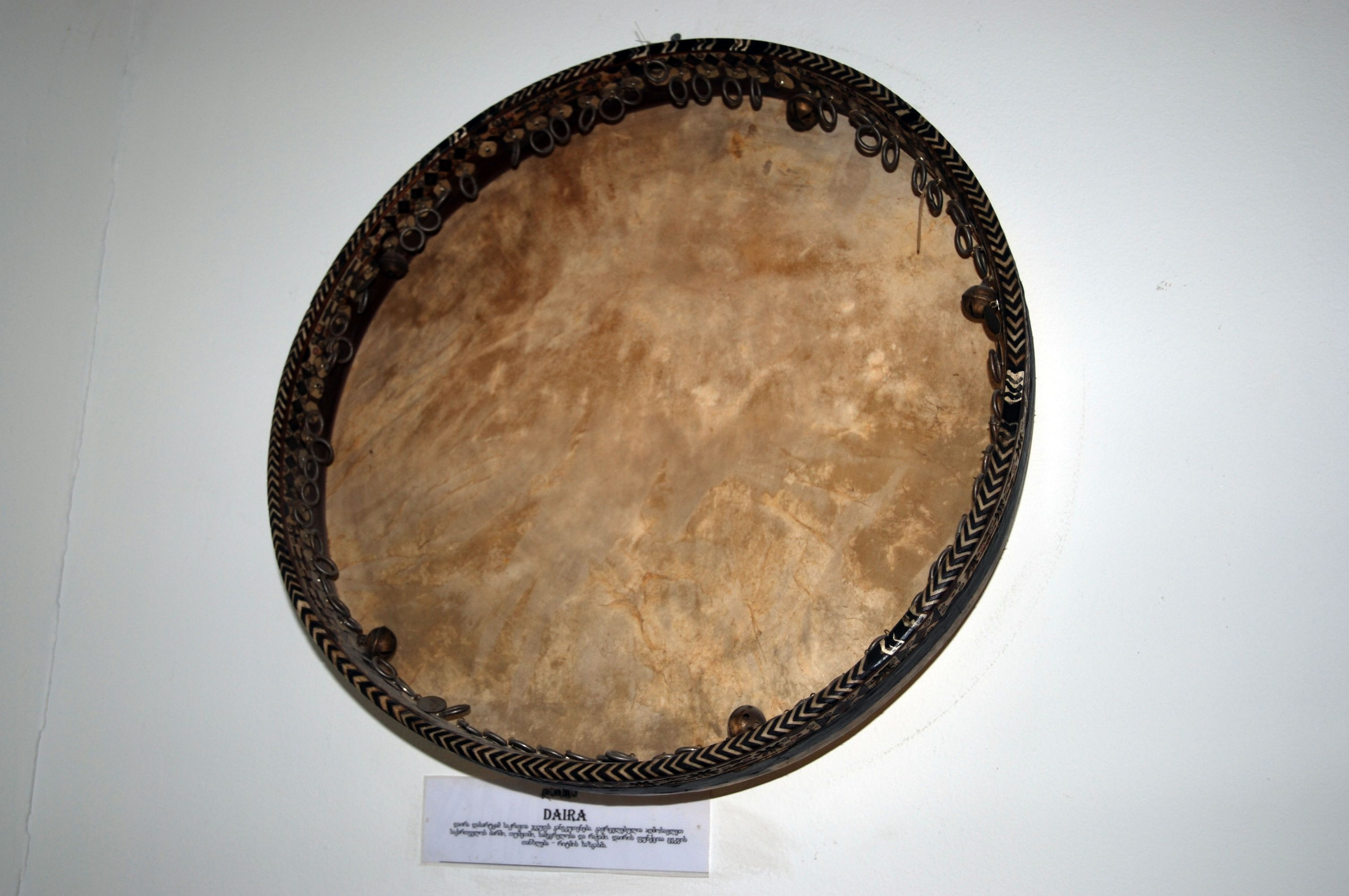 Daira, State Museum of Georgian Folk Songs and Musical Instruments, Tbilisi